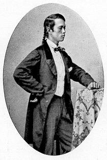 Joseph Pierce, a Chinese American soldier who served in North during American Civil War.